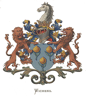 Coat of arms of the family Wichers